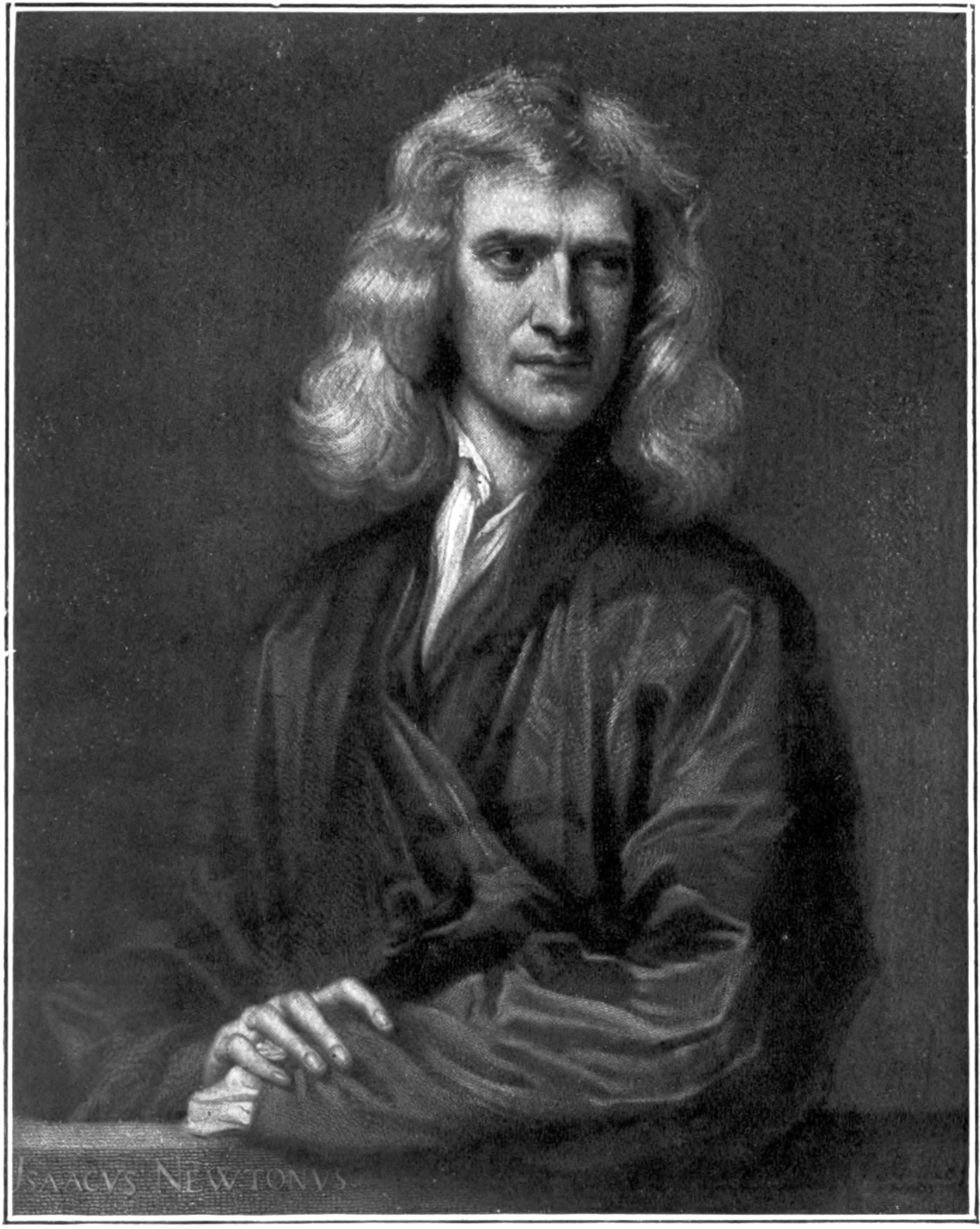 Sir Isaac Newton.